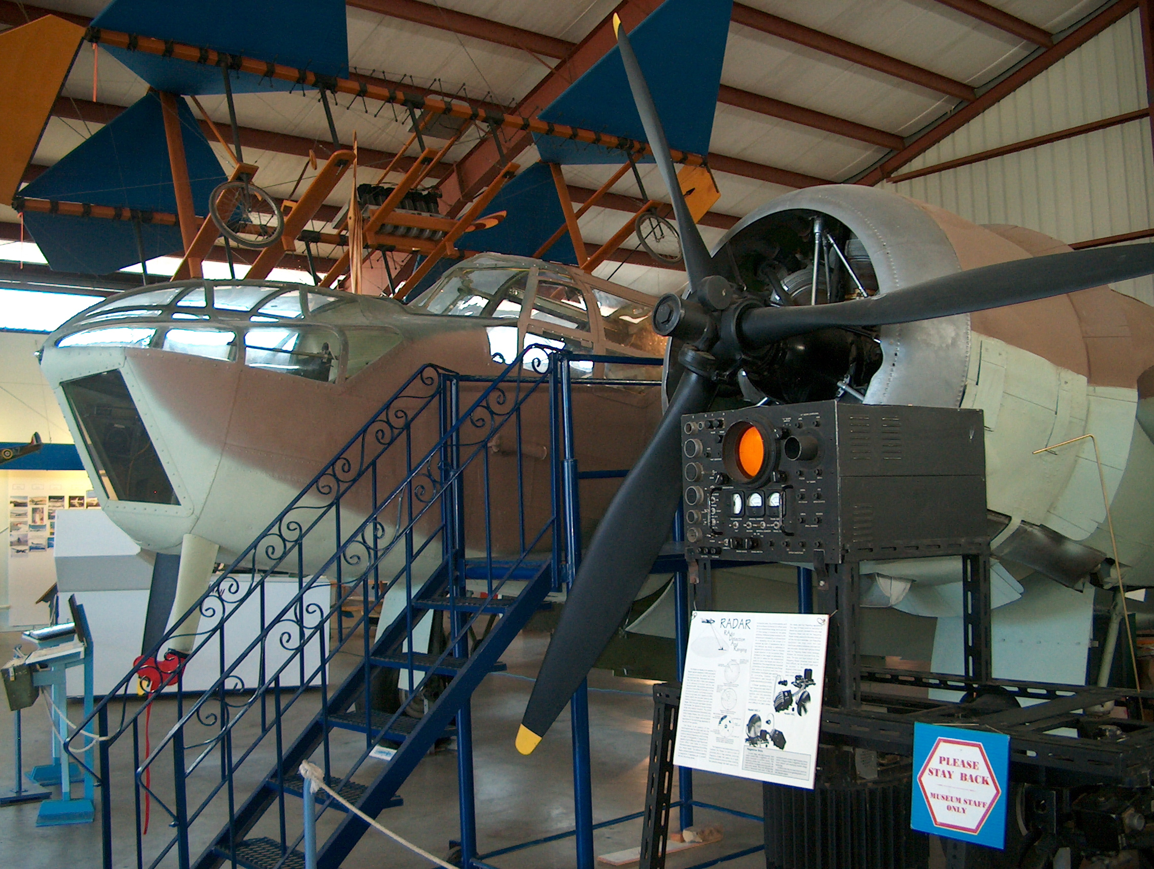 Bristol Bolingbroke (Blenheim) IV at the British Columbia Museum of Flight ?? , Victoria, British Columbia